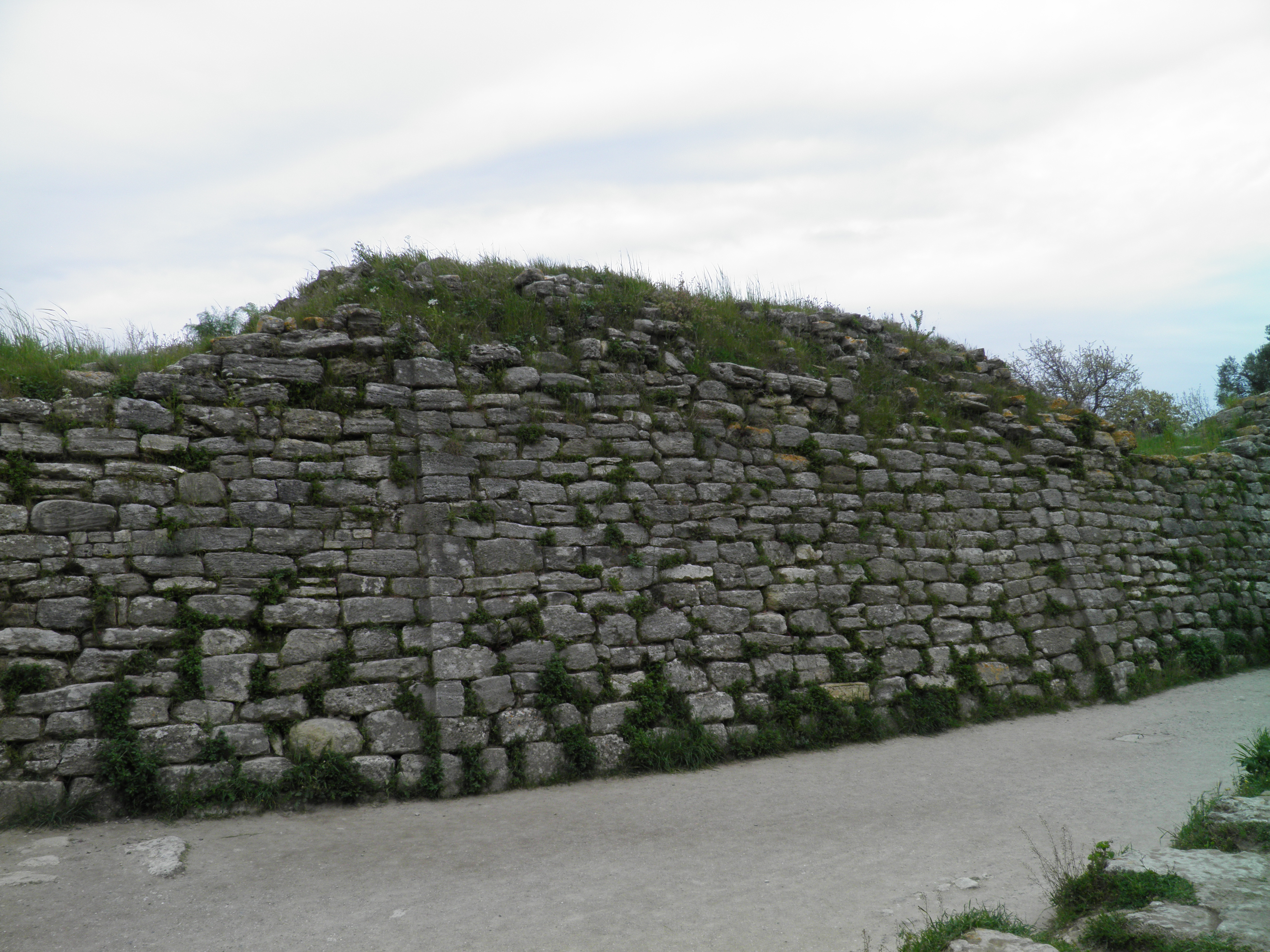 Troy (Ilion), Turkey